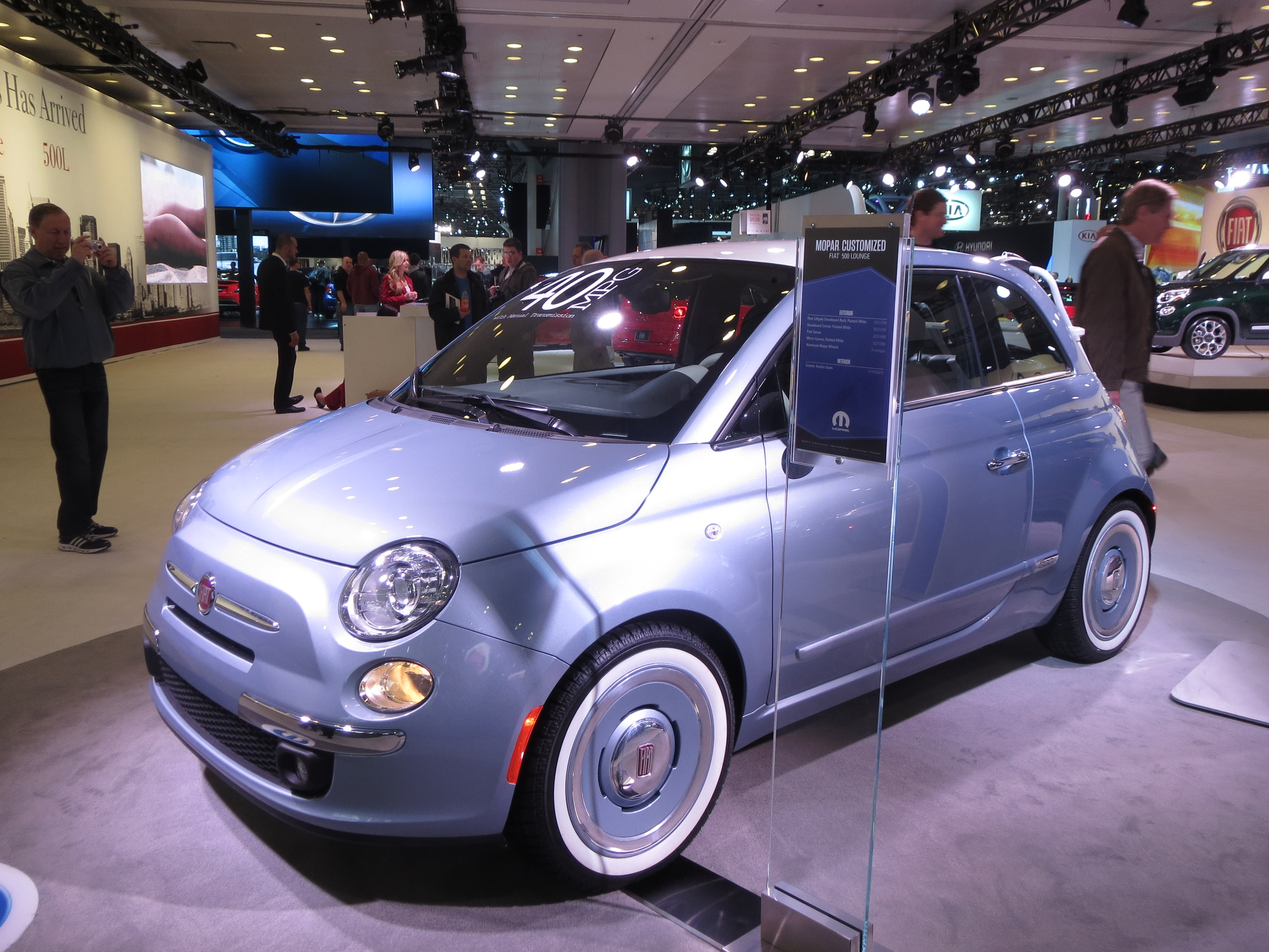 Fiat 500 ad alfa efficienza 40 miglia per gallone New York International Auto Show driving 40 miles per US gallon (5.9 L/100 km; 48 mpg-imp)